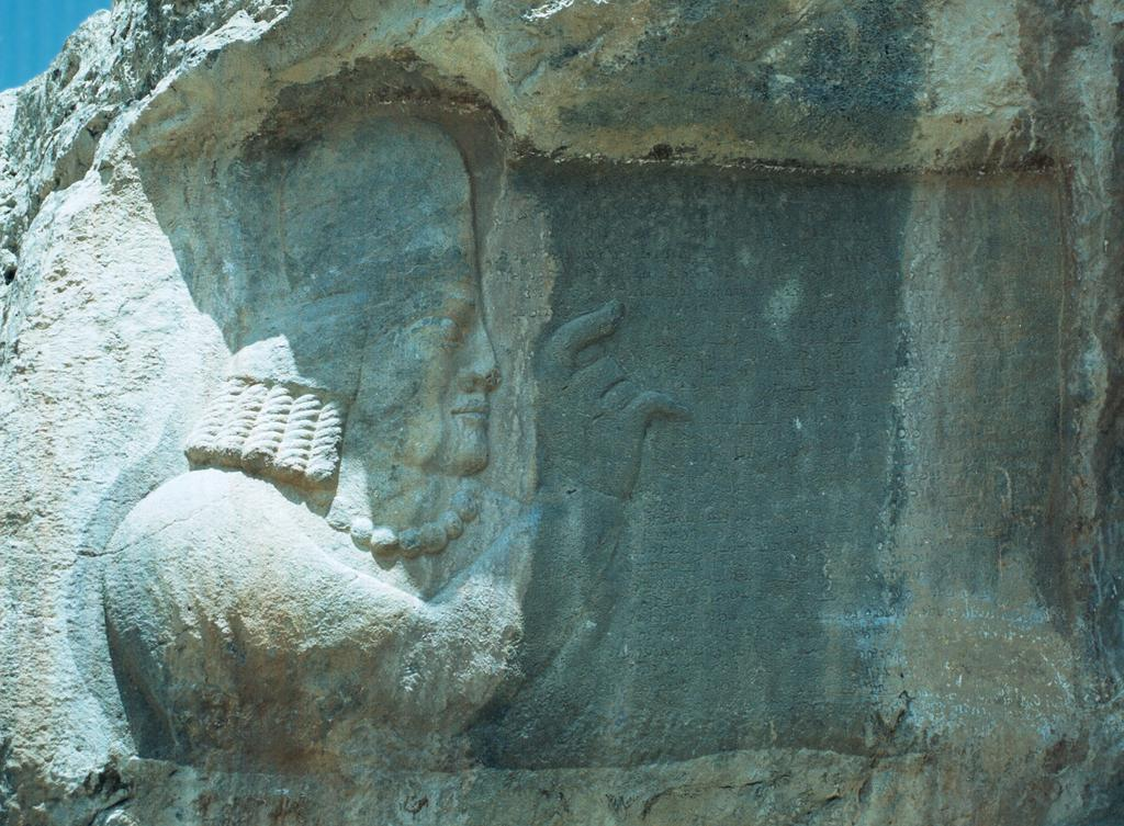 Sassanid relief at Naqsh-e Rajab, Fars, Iran ; 3rd century CE. Relief showing the grand priest Kartir and his inscription in pehlevi middle persian, stating his faith and devotion to the sassanian kings.